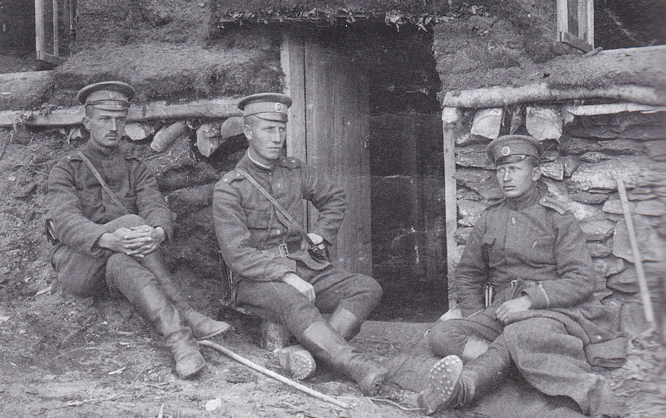 Petar Shandanov as officer